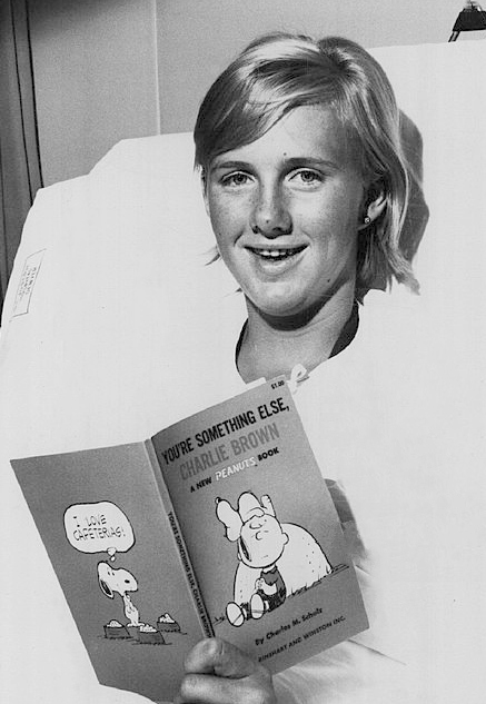 1968 Press Photo US Olympic Skier Karen Budge - RRQ20631